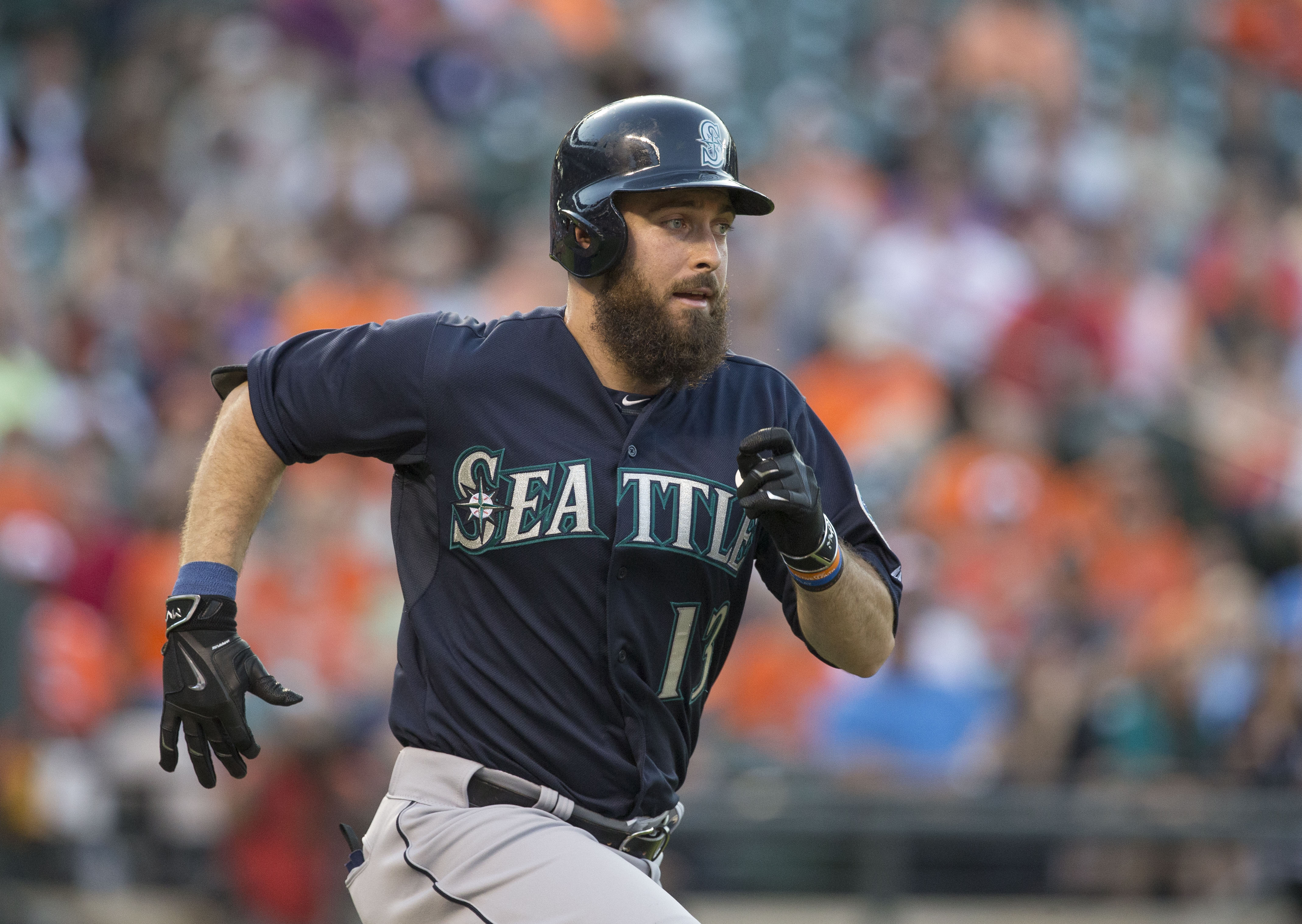 Mariners at Orioles 5/19/15